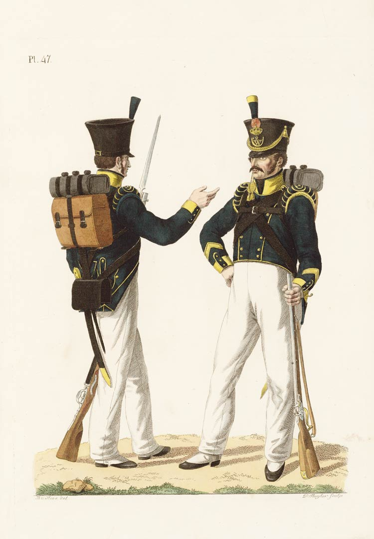 Flank Company Sergeant (right) and 'Jager' of the Corps Jagers in the Dutch West-Indies, 1823